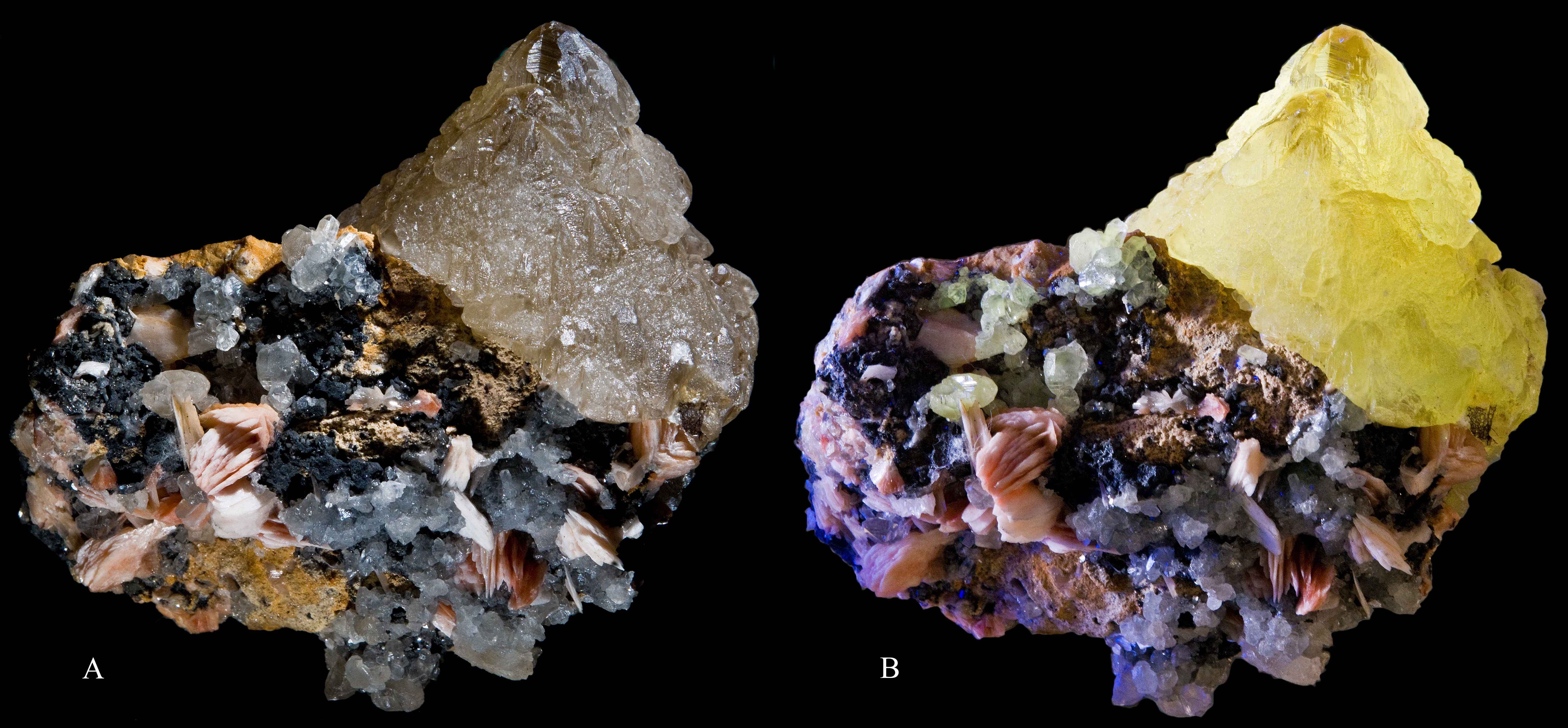 Cerussite Locality : Mibladen Mine, Mibladene (Mibladén; Mibladan; Miblanden), Upper Moulouya lead district, Midelt, Khénifra Province, Meknès-Tafilalet Region, Morocco Size 8x7.5cm A:Daylight B:Ultraviolet light